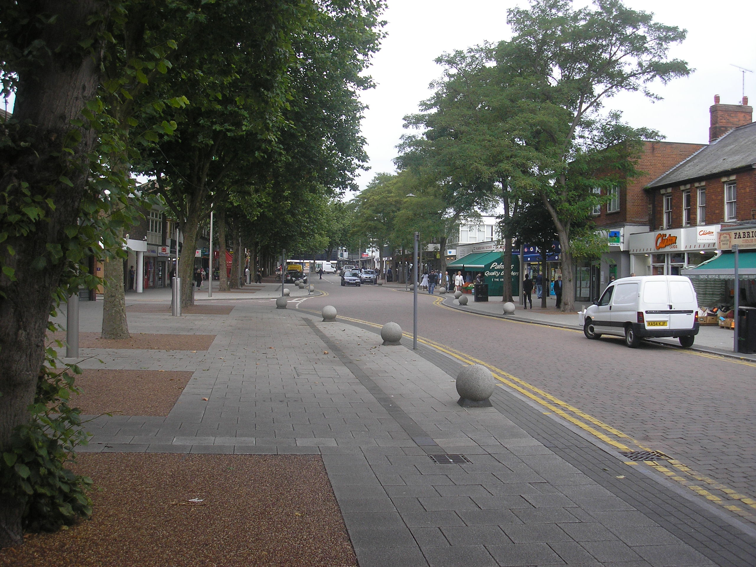 A view along Queensway, the principal shopping street in Bletchley, Milton Keynes.